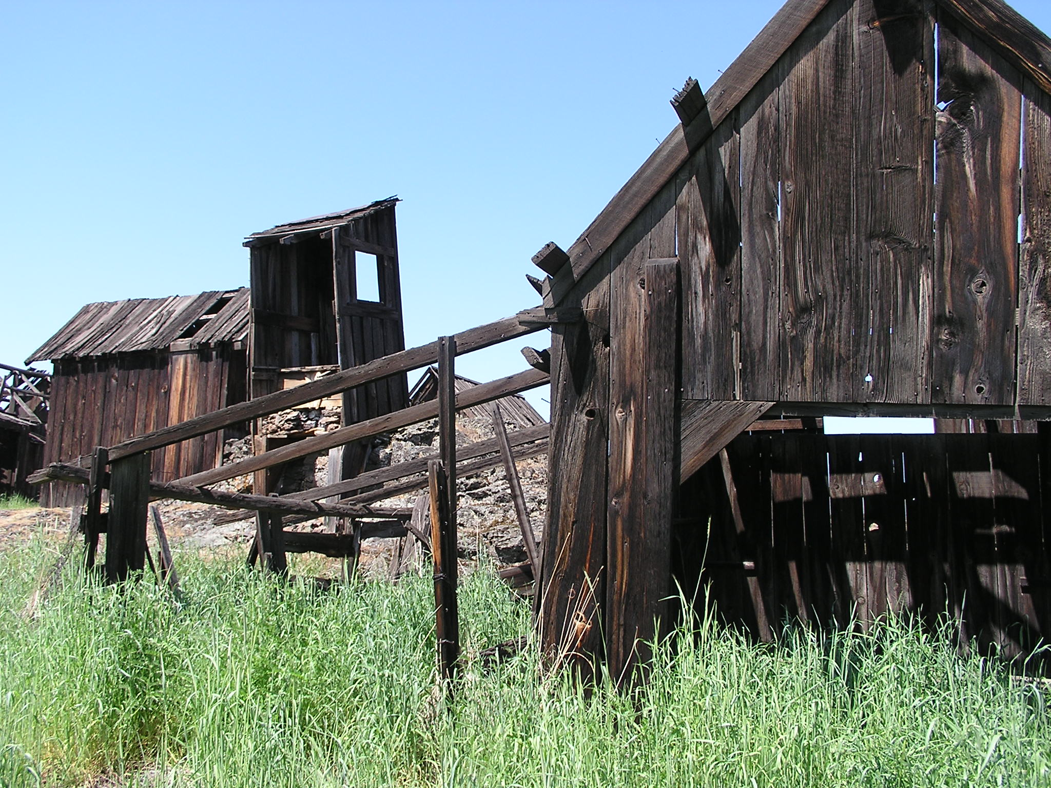 The historic Gulick Homestead in The Dalles, Oregon, United States, is listed on the US National Register of Historic Places.